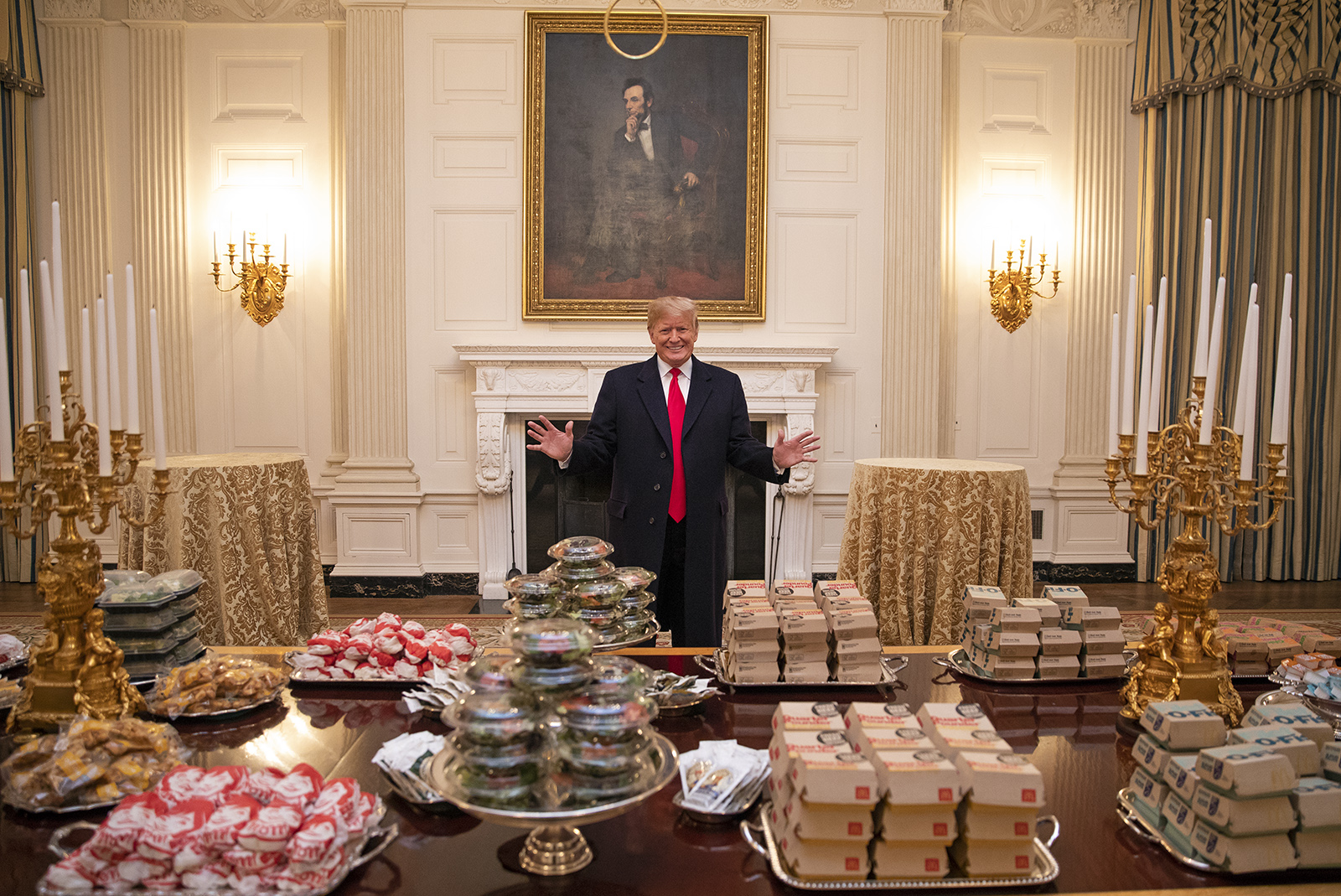 President Donald J. Trump welcomes members of the press to the State Dining Room Monday, January 14, 2019, where the 2018 NCAA Football National Champions, the Clemson Tigers, will be welcomed with food from Domino’s, McDonald’s, Wendy’s and Burger King. (Official White House Photo by Joyce N. Boghosian)